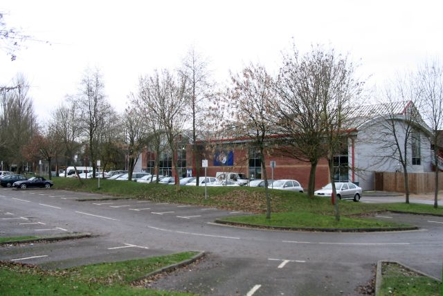 Romsey Rapids swimming pool A modern 25 metre pool with flume beginners pool etc and a gym.